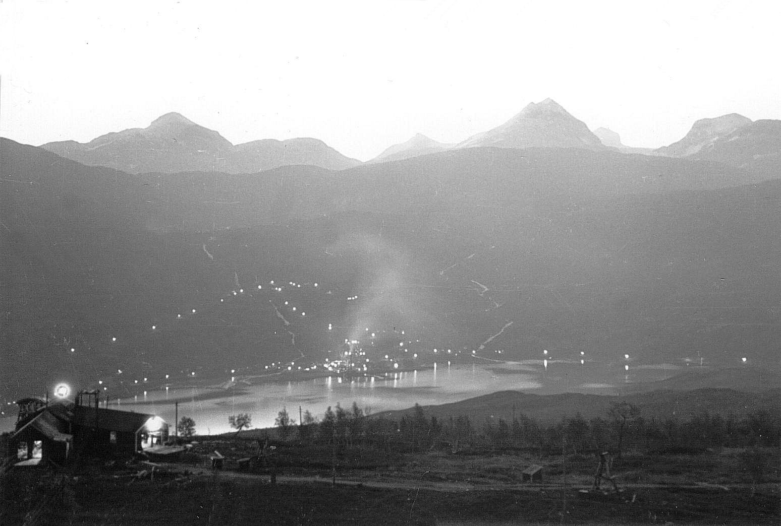 At left the Sagmo cableway station on the line Sagmo-Sandnes, August 1953